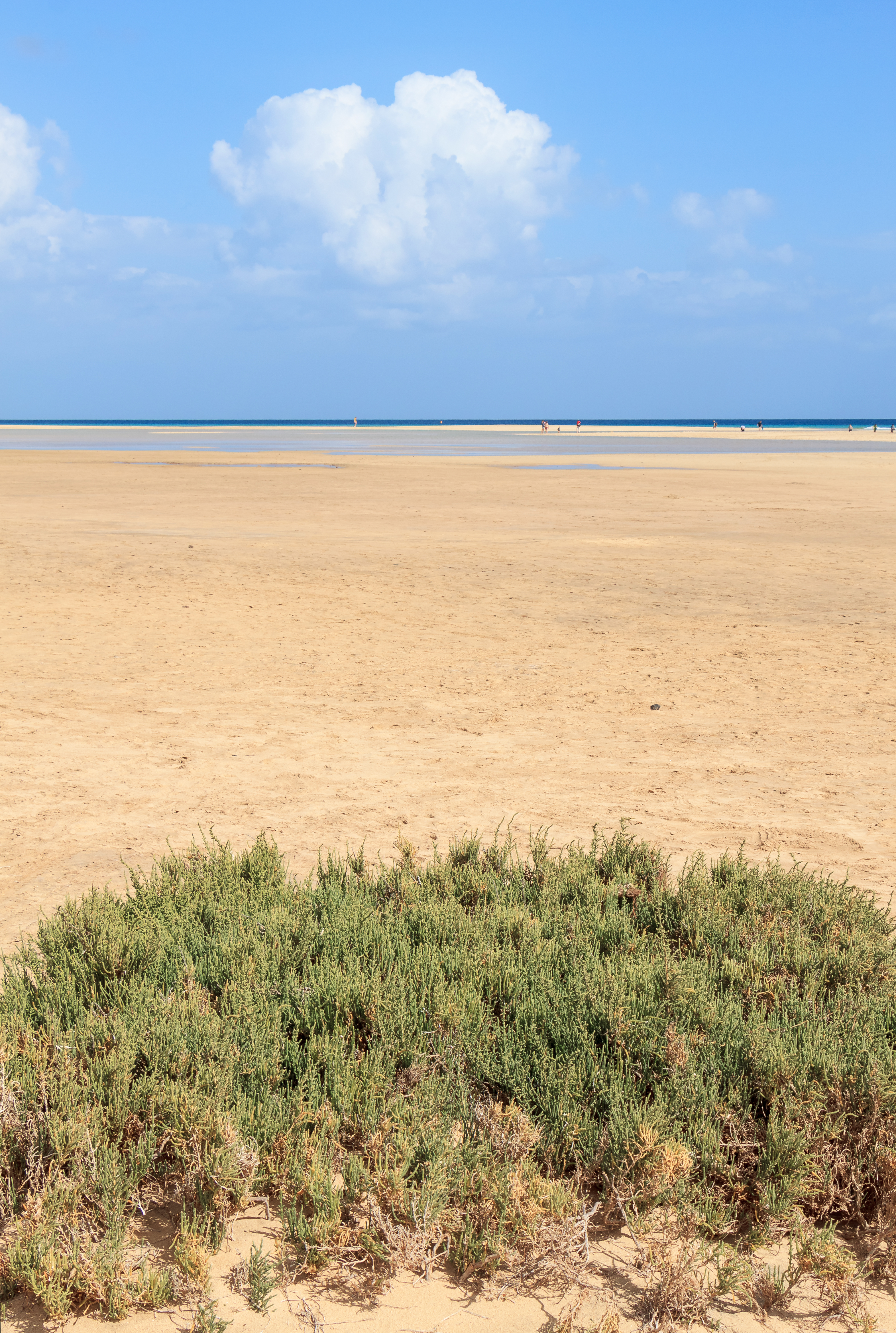 Arthrocnemum macrostachyum (Moric.) C, Koch (Glaucous Glasswort) at the Playa Risco del Paso, Costa Calma, Jandía, Fuerteventura, Canary Islands, Spain.